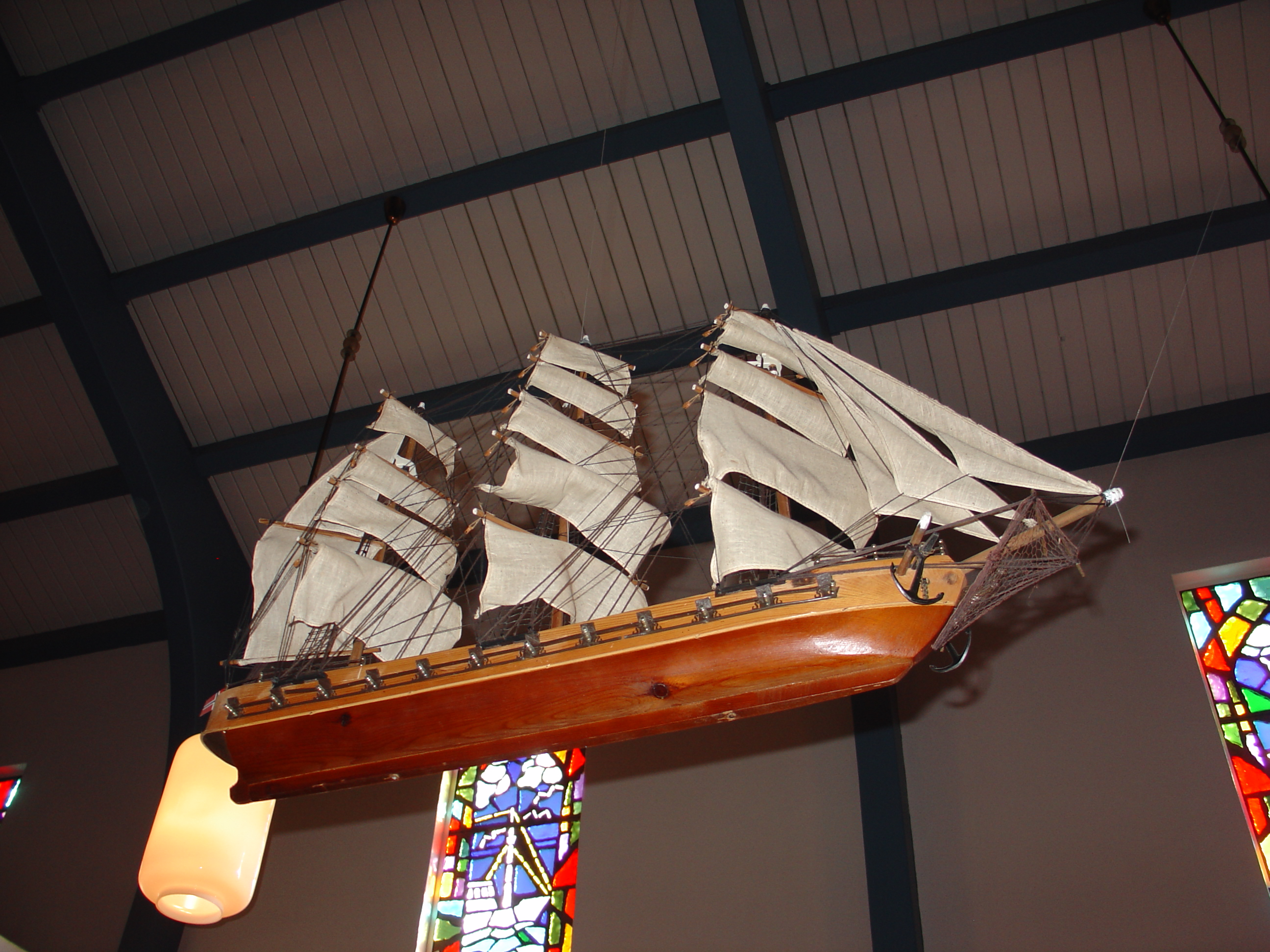 A ship hanging from the rafters of the Norwegian Seamen's Church with stained glass windows behind.